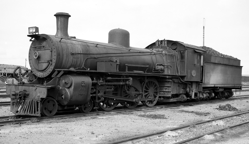 Ex Central South African Railways Class 10 656 (4-6-2) South African Railways Class 10 738 (4-6-2) Works number: NBL 16200 Location: Sydenham Loco